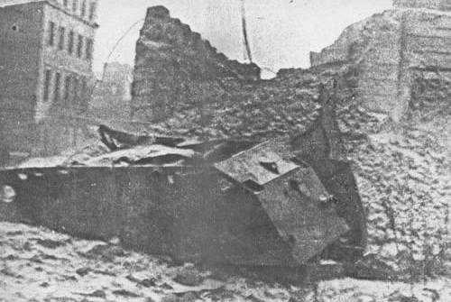 Warsaw Uprising: Remains of trap tank Borgward B IV, which exploded at Kilińskiego 3 Street, on August 13, 1944. In the explosion died over 300 people: about hundred from "Róg" Regiment, many from Battalions "Gustaw", "Wigry" and "Gozdawa", and over hundred civilians.